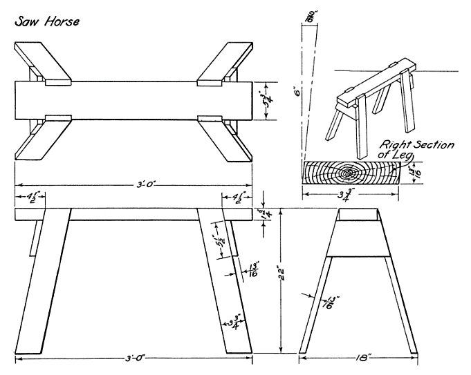 19th century knowledge carpentry and woodworking saw horses